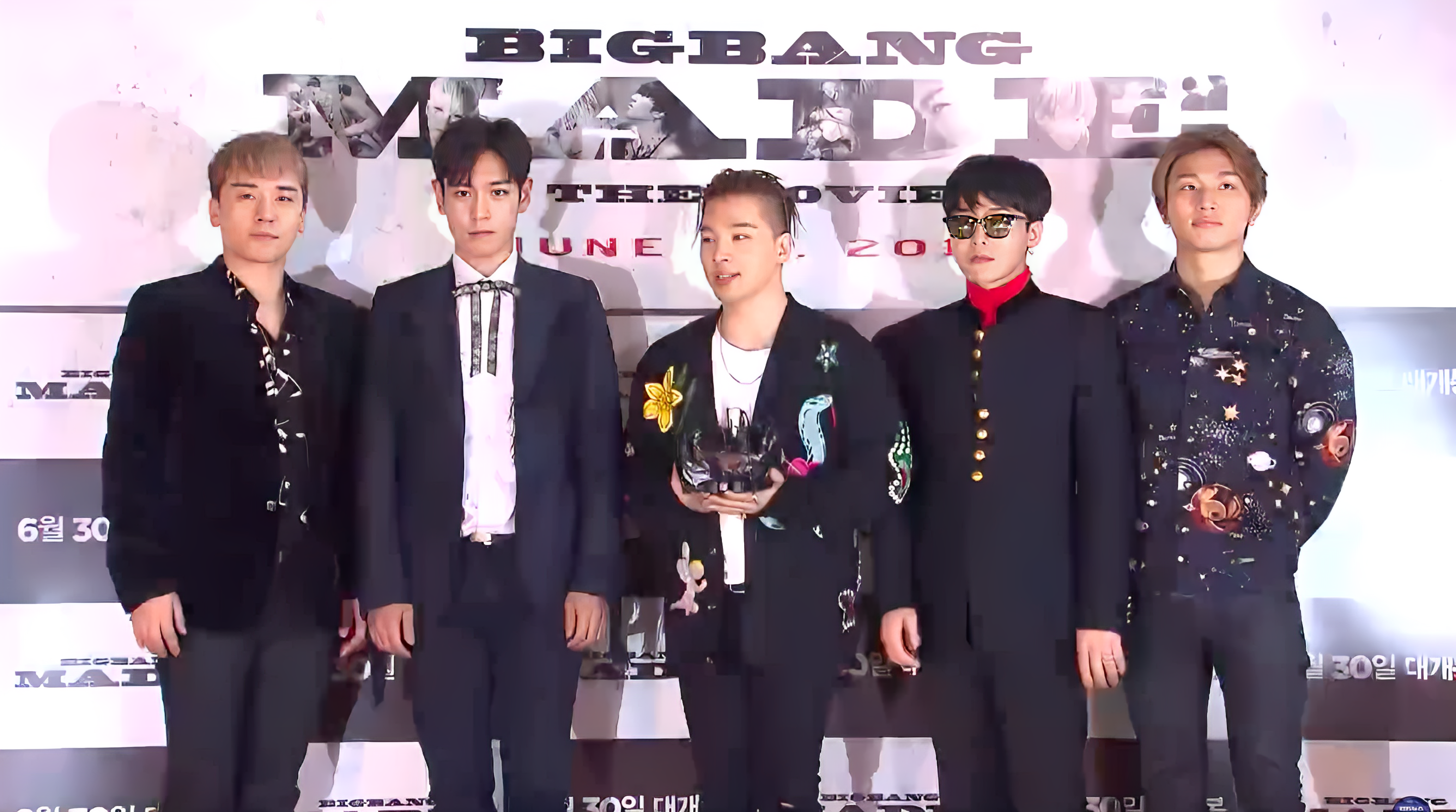 Big Bang 2016 'MADE' Press Conference.